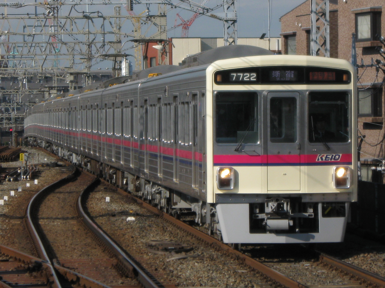 Keio series 7000 7722F at Hachimanyama station